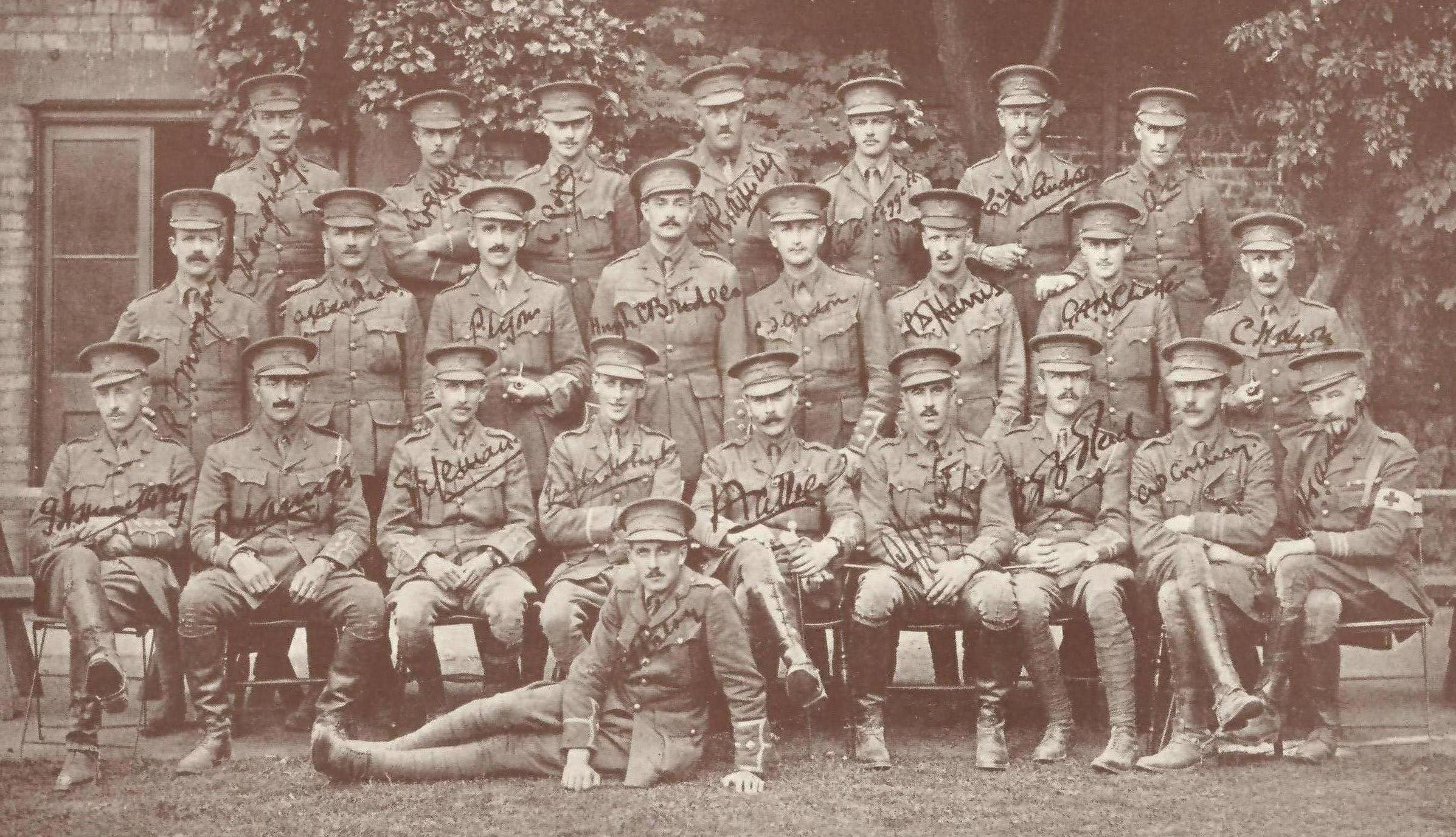 Officers of the 1st Battalion The North Staffordshire Regiment, photographed in Cambridge, August 1914. Back row (standing): Lt and Qr-Mr Edwin Joseph Langridge; Lt Walter Edward Hill (attached from 3rd Battalion), killed Sept 1914; Lt Vyvyan Vavasour Pope (later Battalion Commanding Officer, Jun 1917–Mar 1918); Capt John Herbert Ridgway, killed Apr 1917; 2nd Lt Alan Randall Aufrere Leggett, killed Oct 1914; Lt Edward Darnley Anderson, Transport Officer, killed Nov 1917; Lt Arthur Clegg Fanshawe Royle, killed Sept 1914. Second row (standing): Lt Reginald Frederick Morgan; Lt Arthur Graham Adamson (attached from 3rd Battalion); Lt Phillip Lyon, Machine Gun Officer; Lt Hugh Cuthbert Bridges; Lt Cedric Foskett Gordon; Lt Philip Dawson Harris (attached from 3rd Battalion), killed Mar 1918; 2nd Lt Greville Arthur Bagot-Chester (attached from 3rd Battalion), killed Oct 1914; Capt Charles Harry Lyon. Front row (seated): Capt George Harvey Hume-Kelly, Officer Commanding ‘D’ Company, killed Oct 1914; Capt Reginald John Armes, Officer Commanding ‘A’ Company; Major George Edward Leman, Officer Commanding ‘B’ Company; Lt James Wilfred Lang Stanley Hobart; Lt-Col Vigant William de Falbe D.S.O., Battalion Commanding Officer; Major Louis John Wyatt, 2nd in Command; Capt Eric Bruce Reid, killed Oct 1914; Capt Arthur Septimus Conway, Officer Commanding ‘C’ Company, killed June 1917; Major Henry Stewart Anderson, Medical Officer (attached from Royal Army Medical Corps). Seated on ground: 2nd Lt Hubert Francis Patry, died Sept 1914